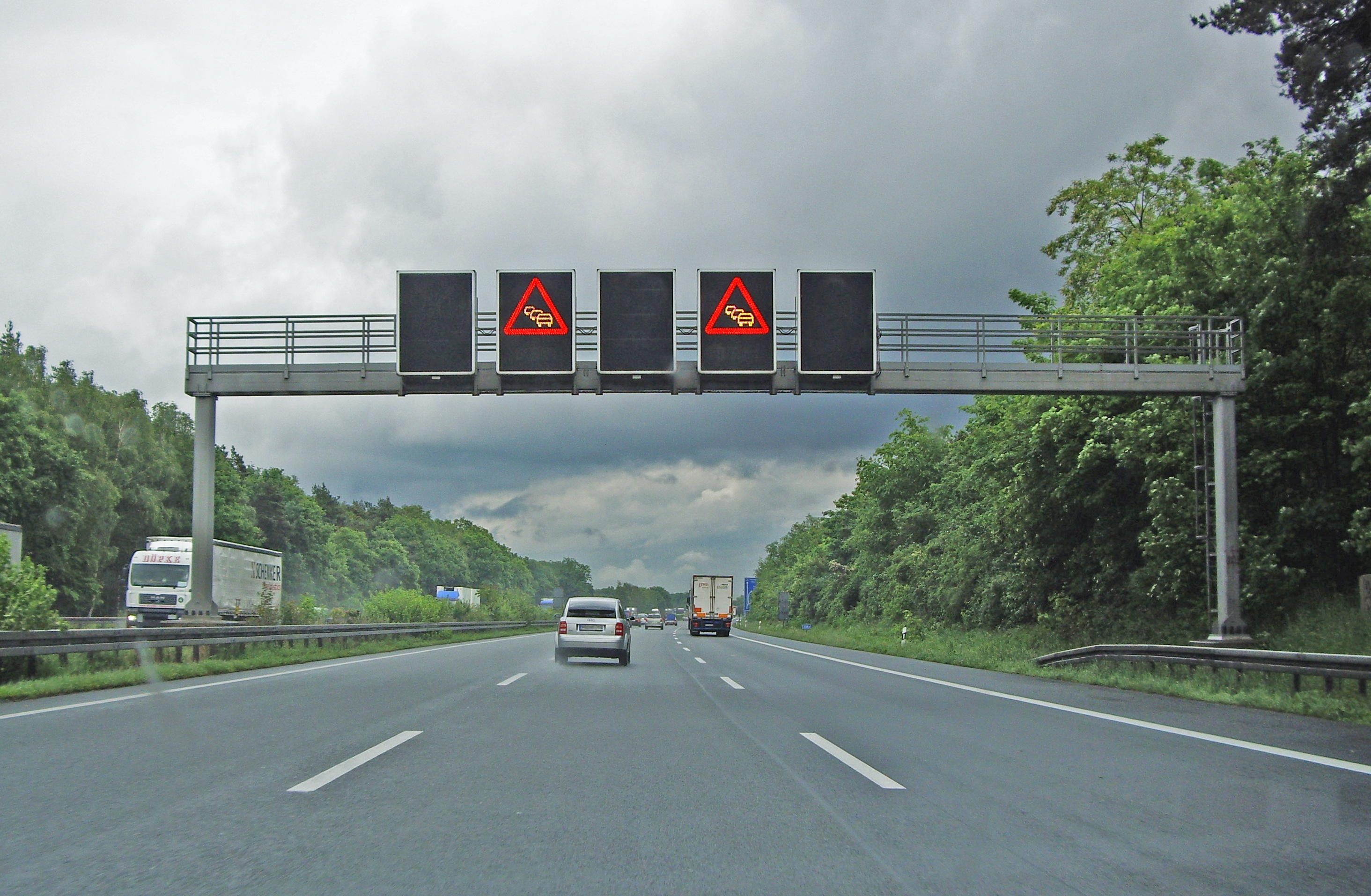 Congestion signs on Germany Autobahn